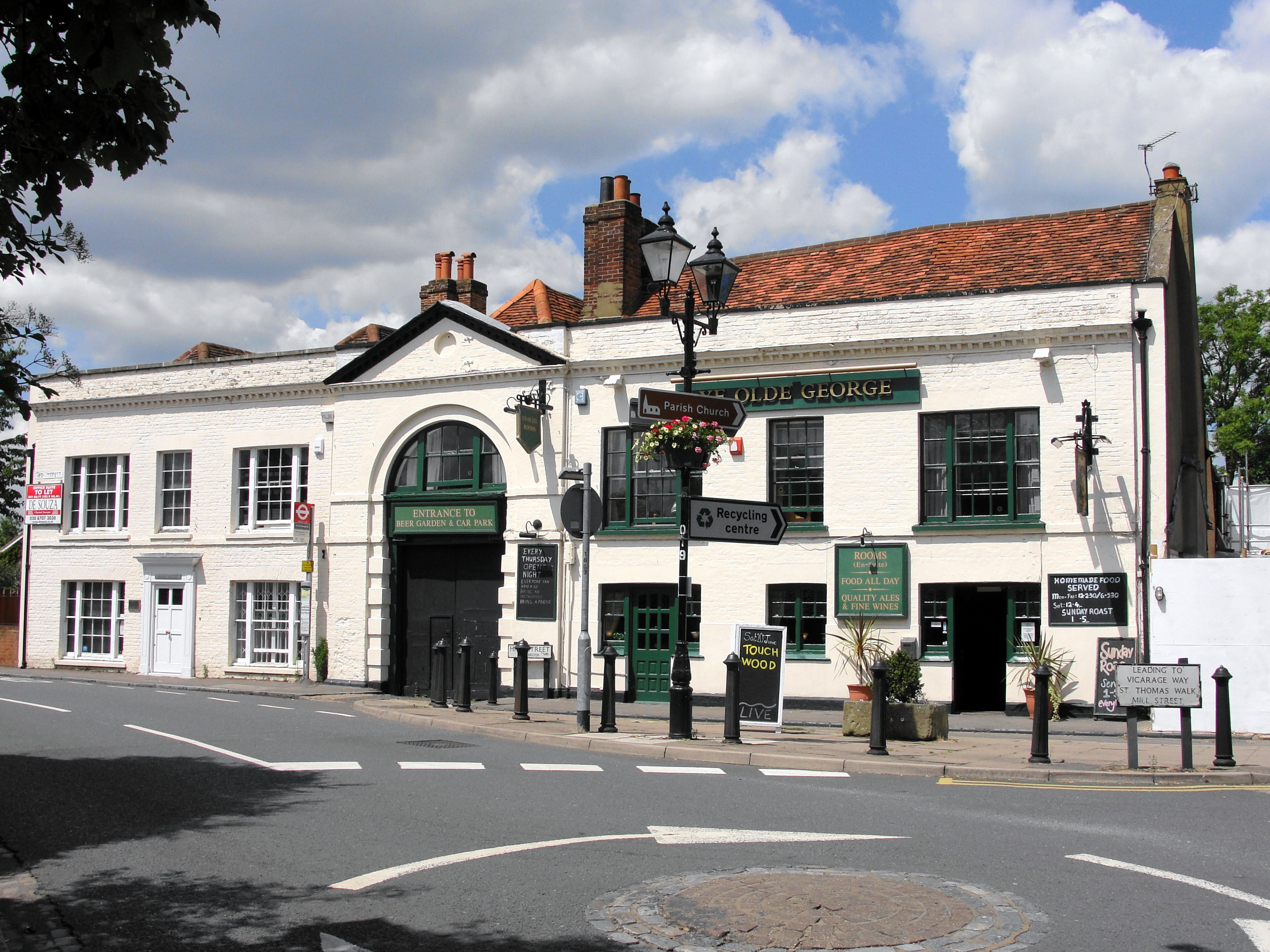 Ye Olde George Inn at the rundabout in Colnbrook